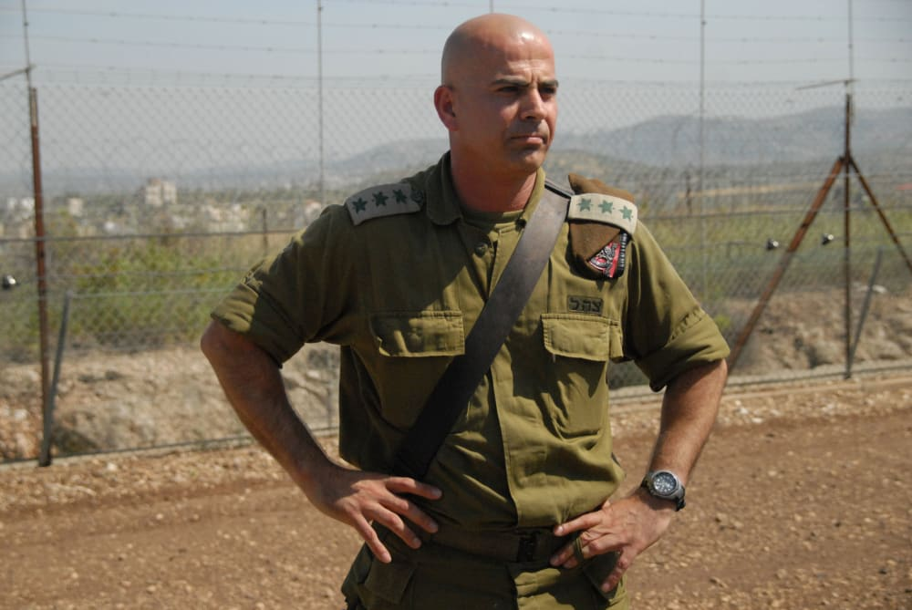 Tat-Aluf Ghassan Alian of IDF